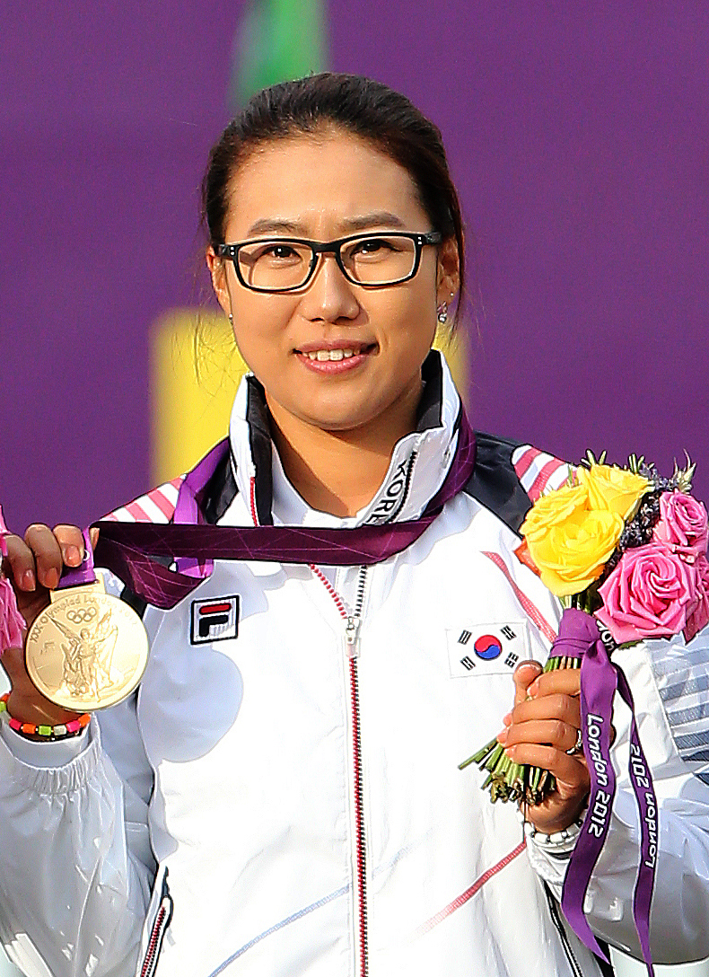 2012 London Olympic Games Korea Archery Women's Team won the gold medal 2012.7.30. Photo by Korean Olympic Committee Ministry of Culture, Sports and Tourism Korean Culture and Information Service 2012 런던 올림픽 한국 여자양궁 대표팀 단체전 금메달 획득 사진제공 - 대한체육회 문화체육관광부 해외문화홍보원